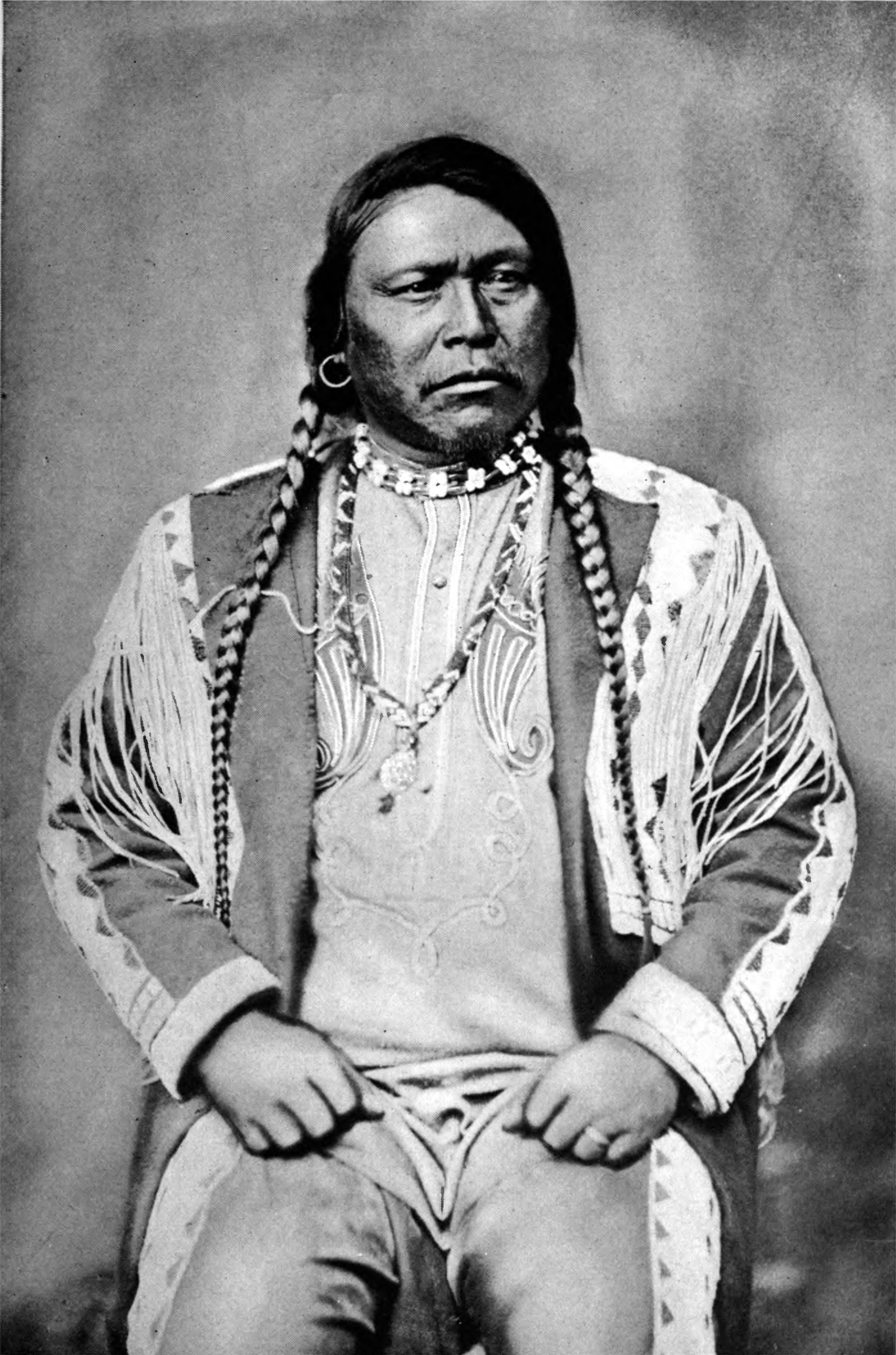 Illustration from The Indian Dispossessed by Seth K. Humphrey, 1906.